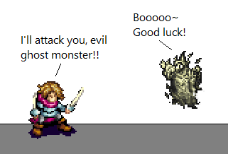 Panel of a possible sprite comic, featuring graphics of The Battle for Wesnoth. The panel features a blank background, as was common in early sprite comics. Graphics used: File:Fencer-anim.png; File:Undead-ghost.png